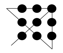 representation of the nine dot problem created in powerpoint